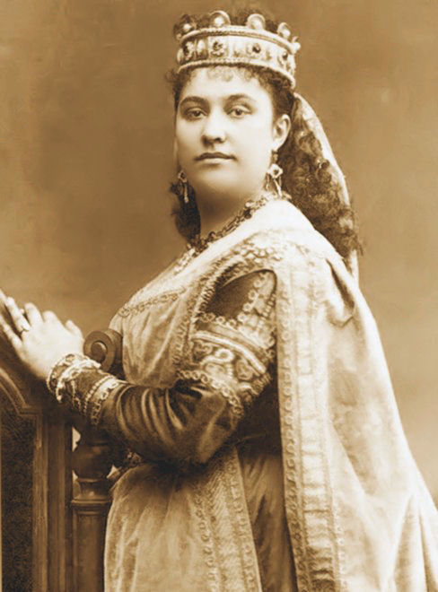 Soprano Amalie Materna as Elisabeth in Wagner's Tannhäuser at the Metropolitan Opera in New York City in 1885.